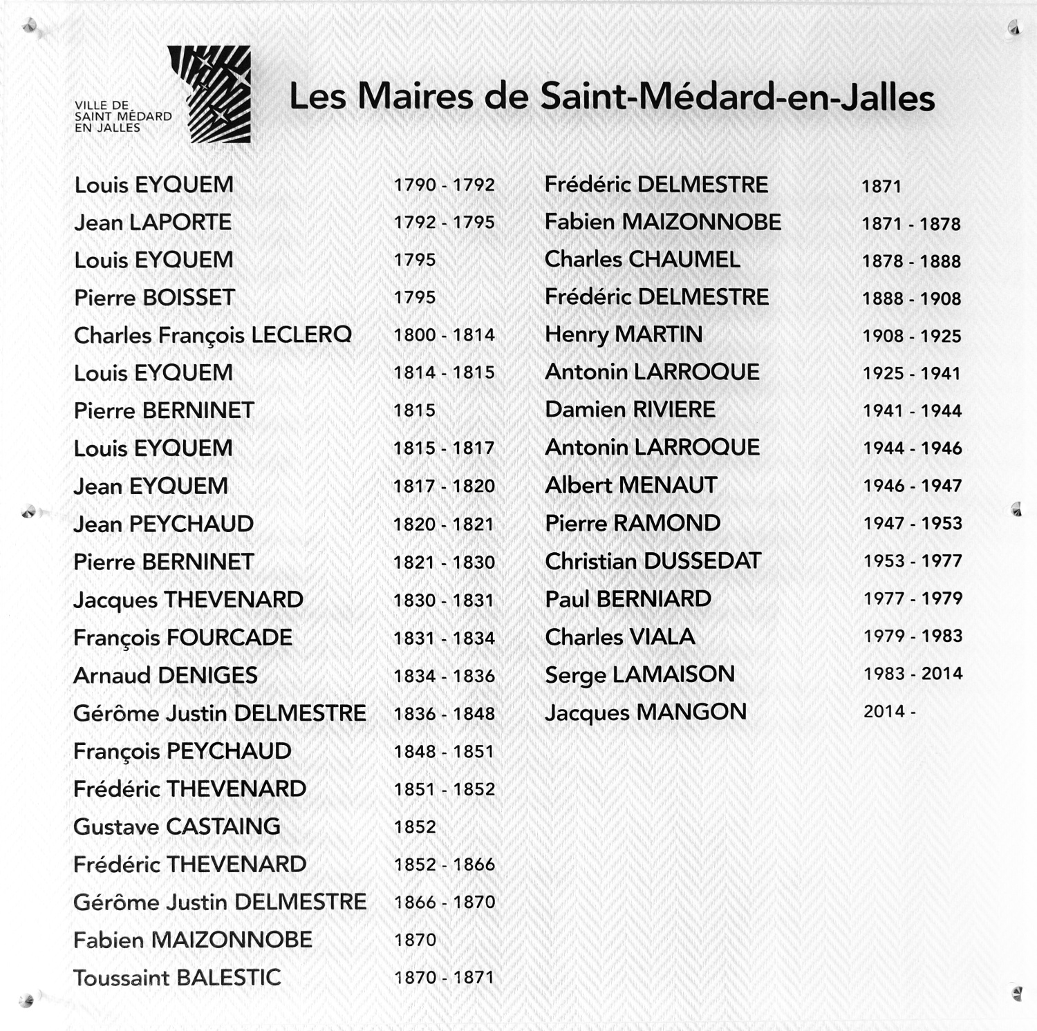 Liste des maires affichée en mairie de Saint-Médard-en-Jalles.